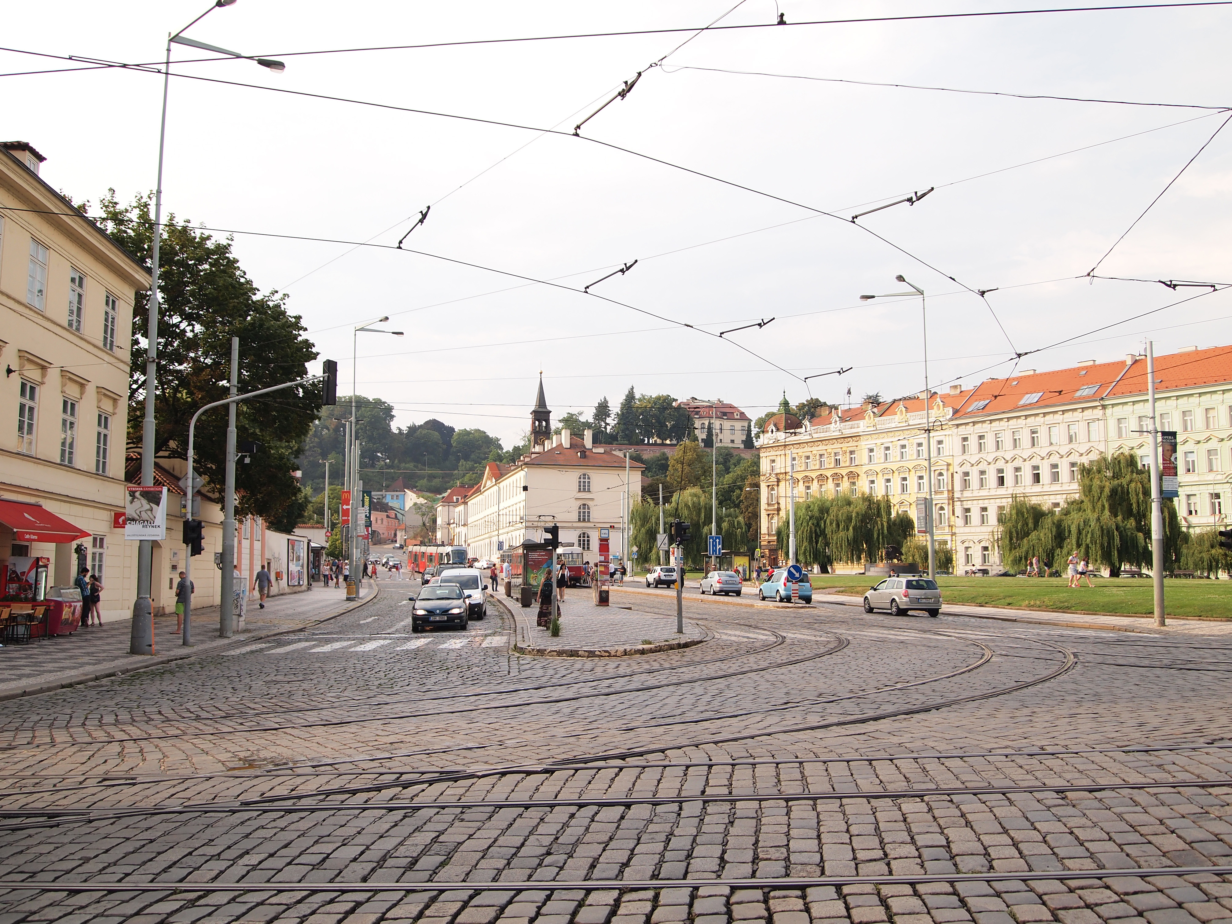 Klárov street in Prague. This photograph was taken with an Olympus E-PL1